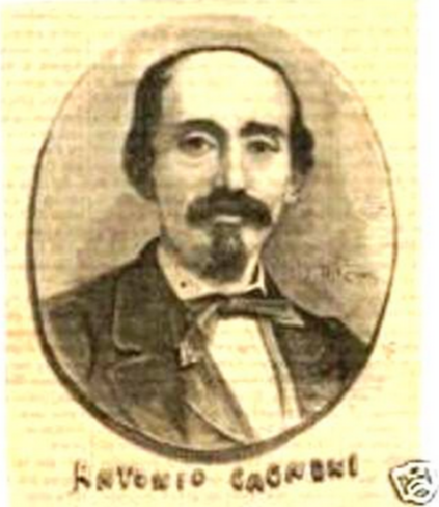 Antonio Cagnoni c. 1880s